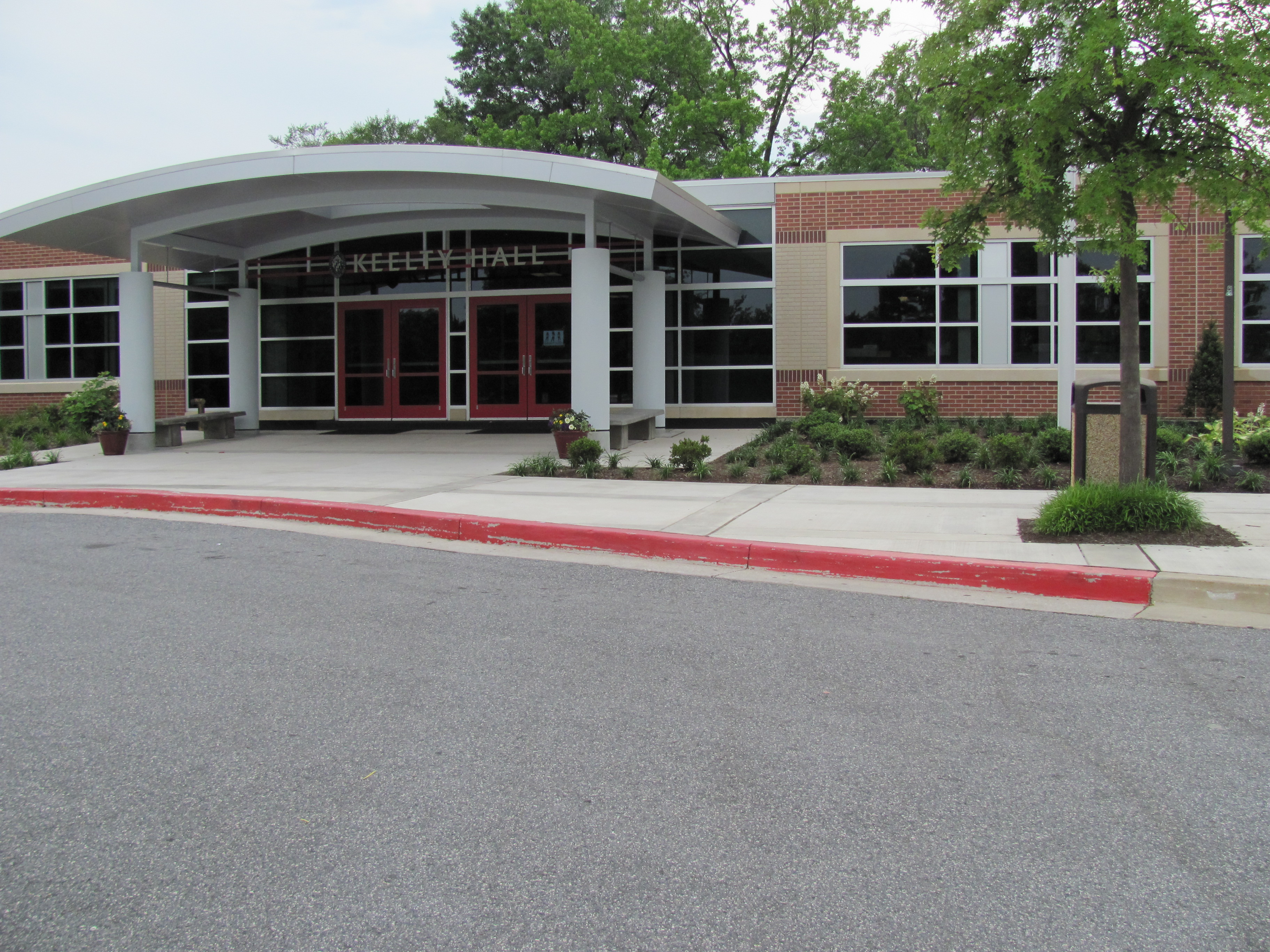 Entrance to Keelty Hall at Calvert Hall College High School, Towson, Maryland